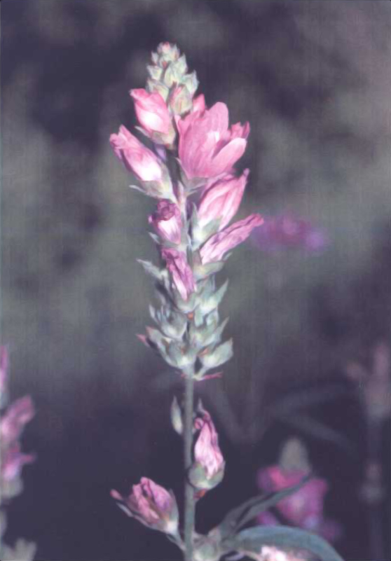 A Wenatchee Mountain Checker-mallow